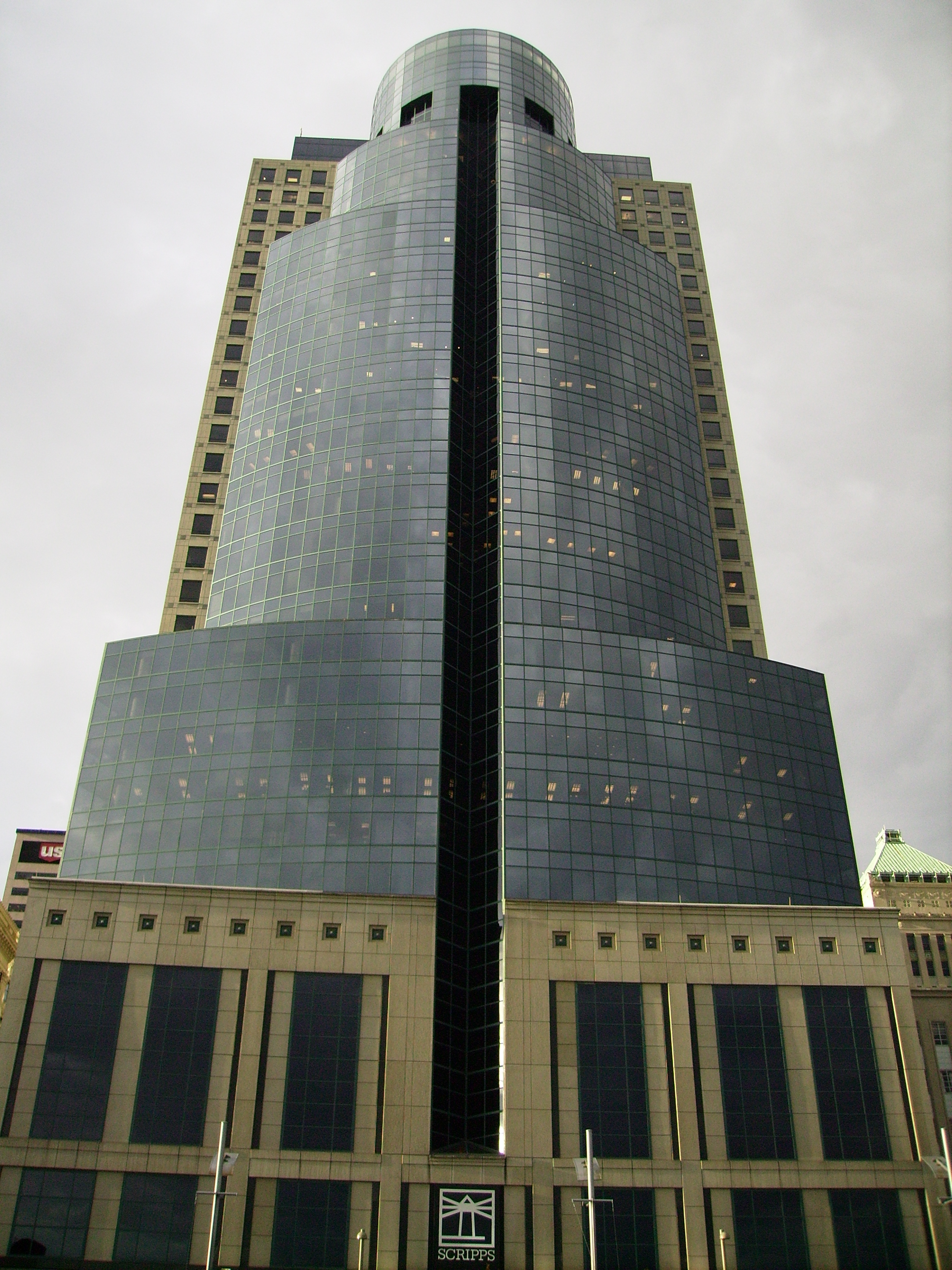 The Scripps Building, Cincinnati OH